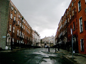 Henrietta Street in Dublin - my image, no c/r